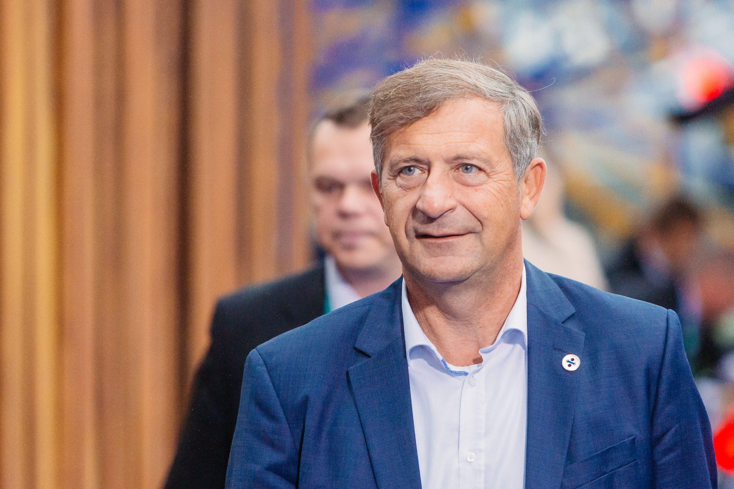 Karl Viktor Erjavec, Minister, Ministry of Foreign Affairs, Slovenia Photo: Arno Mikkor (EU2017EE)